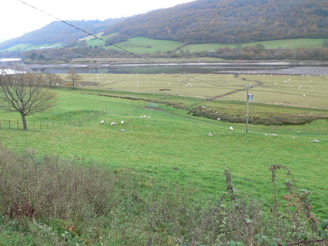 Site of Roman bath-house, Caerhun This is between the church of St Mary's, Caerhun, and the Conwy river. There used to be a Roman camp on this site.